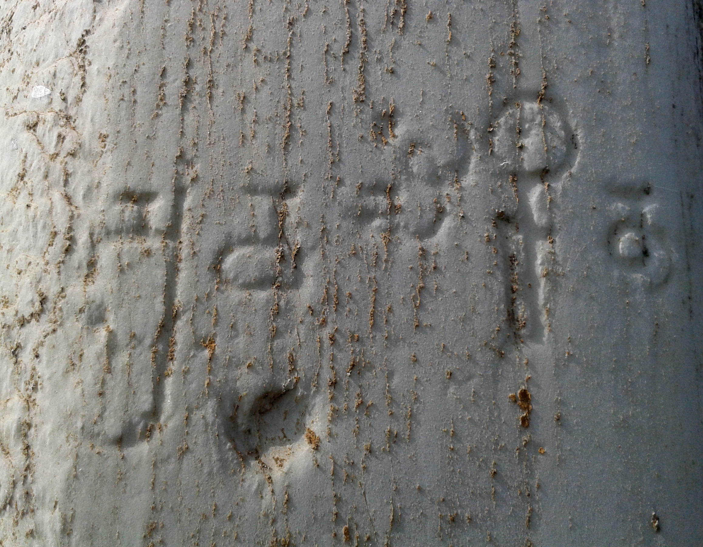 Brahmi Script inscribed on a Railing Pillar at Velpuru Ramalingeswara Temple complex, Guntur district